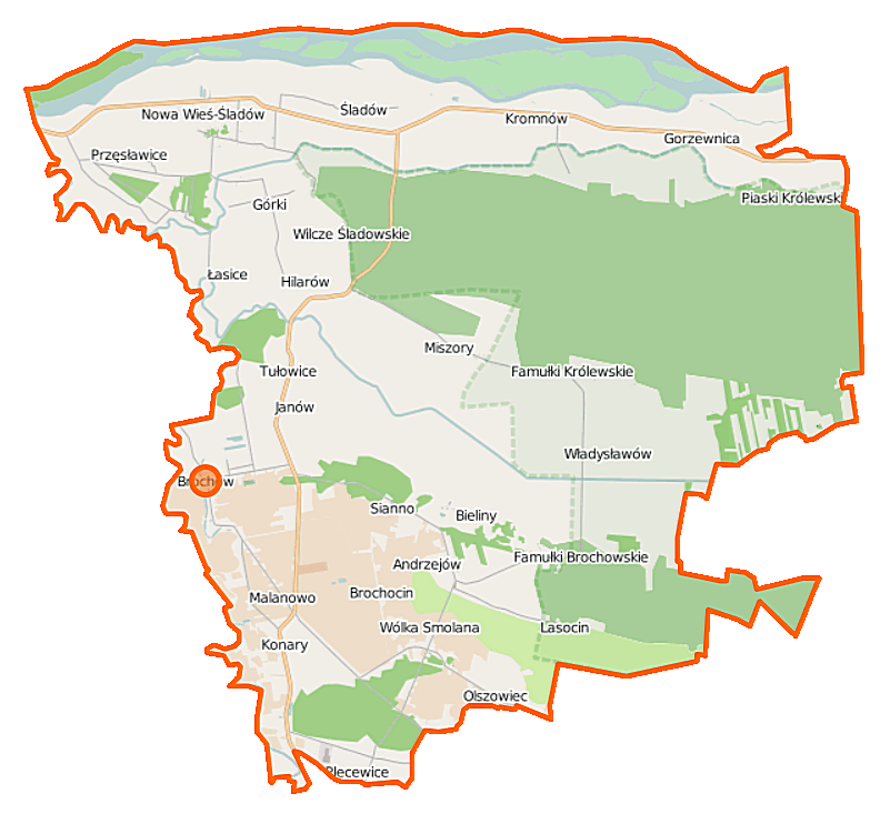 Map of Gmina Brochów, Poland This map of Brochów (gmina) was created from OpenStreetMap project data, collected by the community. This map may be incomplete, and may contain errors. Don't rely solely on it for navigation. Border coordinates52.394720.2111←↕→20.430852.2717